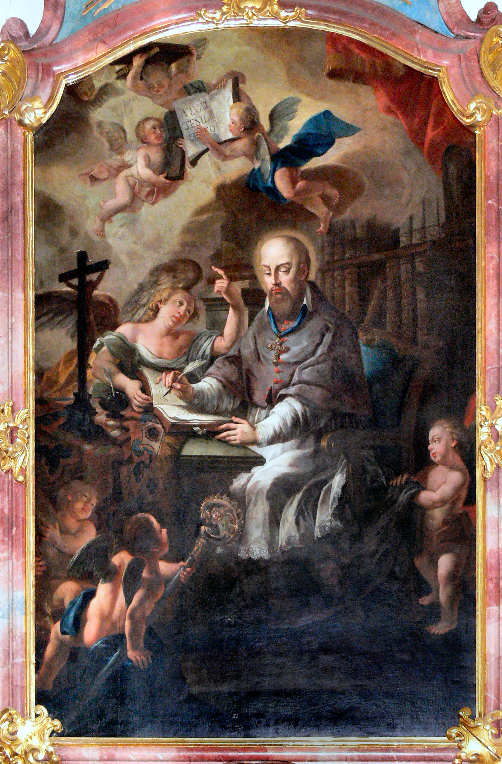 Saint Sigismund parish church in Strobl, Salzburg ( Austria ). Altar painting showing Francis de Sales in his study ( 1760 ) made by Peter Anton Lorenzoni.